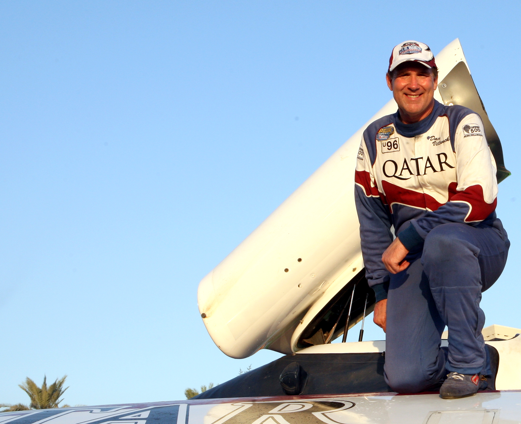 American Unlimited Hydroplane driver Dave Villwock sits atop the U-96 boat at the Doha Bay. Pic by Mohan